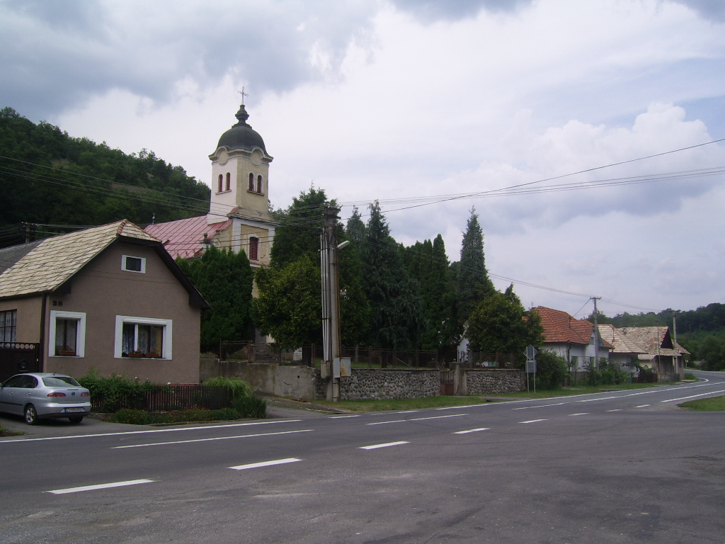 Domaníky, Slovakia